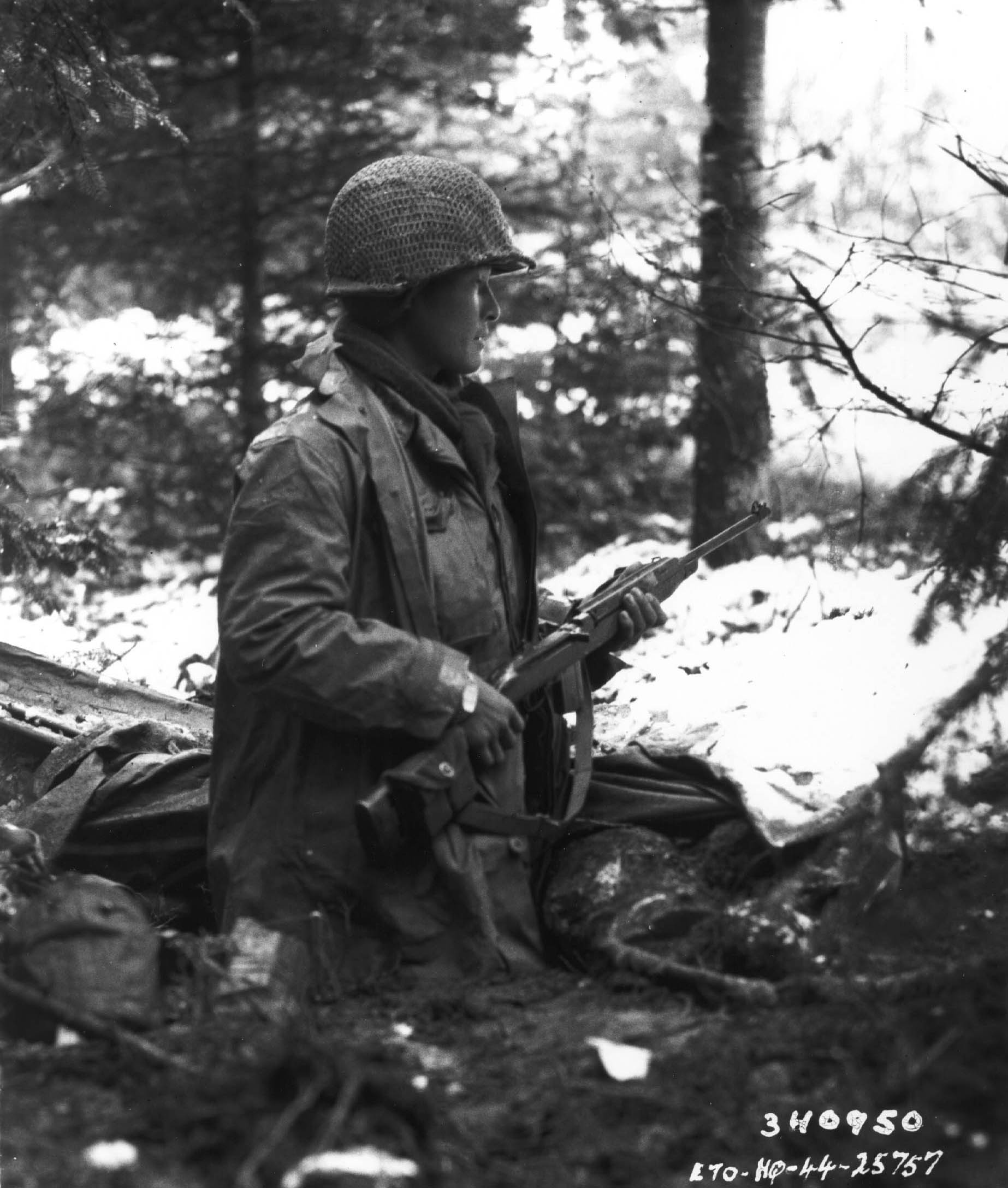 A Company F, en:442nd Regimental Combat Team squad leader looks for German momvements in a French valley 200 yards away. Snow, rain and mud made life miserable for these Japanese-American front line troops in November en:1944. (Army Center for Military History file photo)